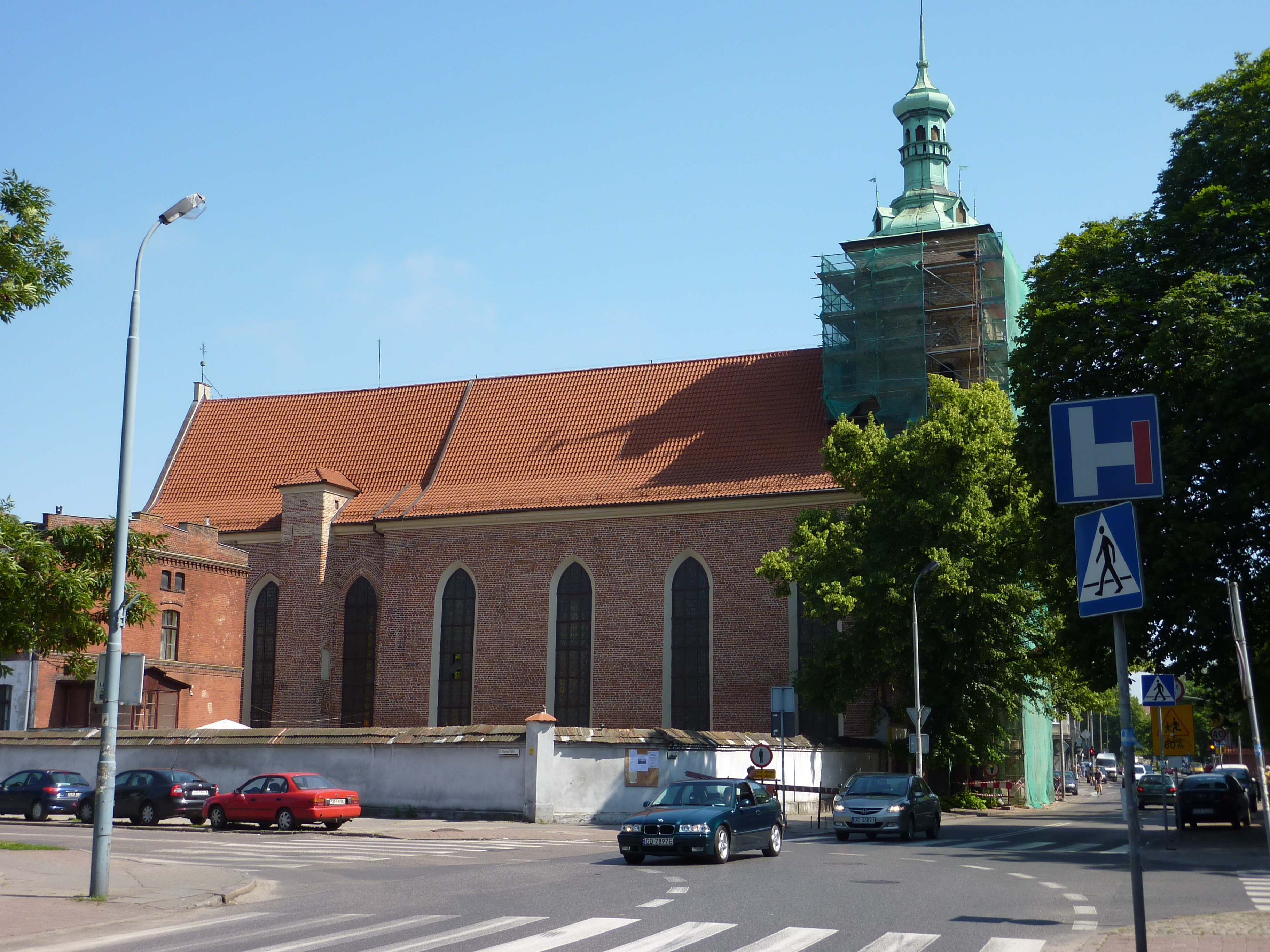 Church of St. James in the Old Town of Gdańsk